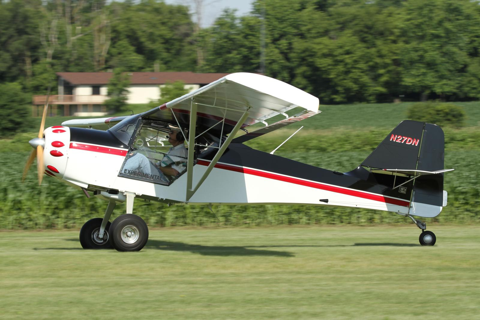 1993 Nadon David J KITFOX III C/N 1162; Big Foot Fly-In, Walworth, Wisconsin, June 25th 2011